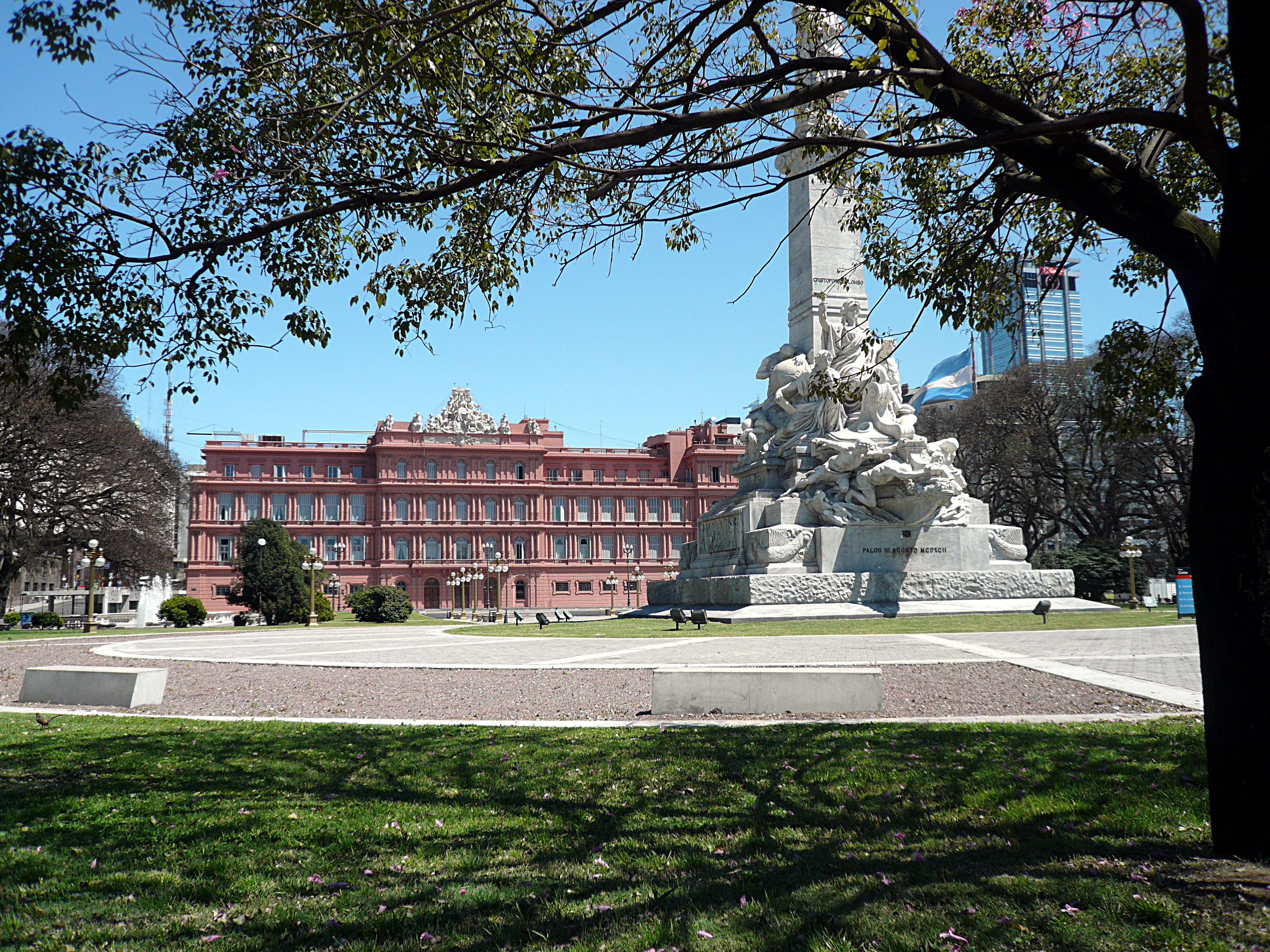 Columbus Park and the Casa Rosada, Buenos Aires.